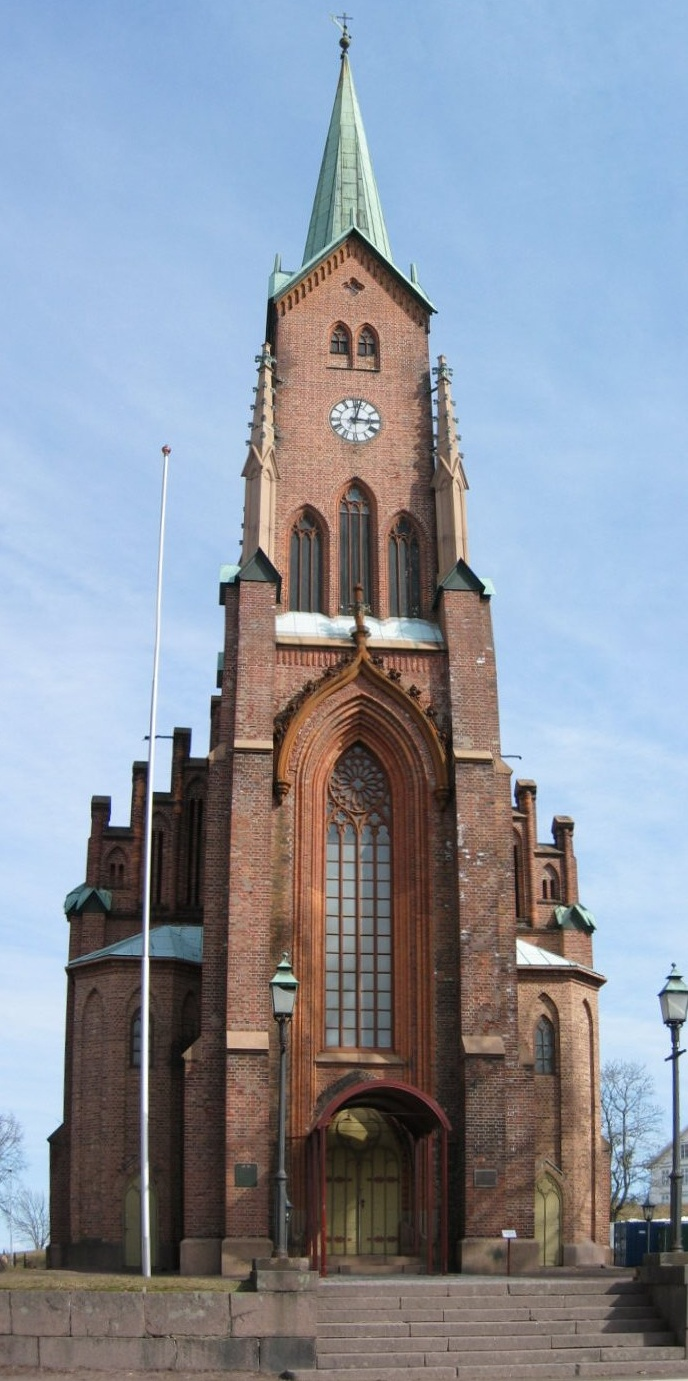 Horten Kirke/Church of Horten, Norway front view